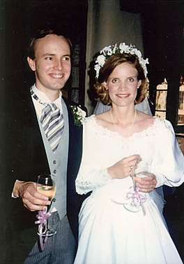 On May 24, 1986 at St. Mary's Cathedral in Wichita, Kansas, Dr. Weinand married Dr. Mary Ann Coady.